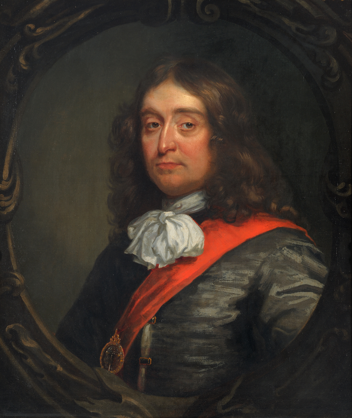 Portrait of Thomas Fanshawe (1596–1665), 1st Viscount Fanshawe of Dromore, oil on canvas, by Mary Beale, 1665. 72 cm x 61 cm. Courtesy of the collection of Valence House Museum, Dagenham.